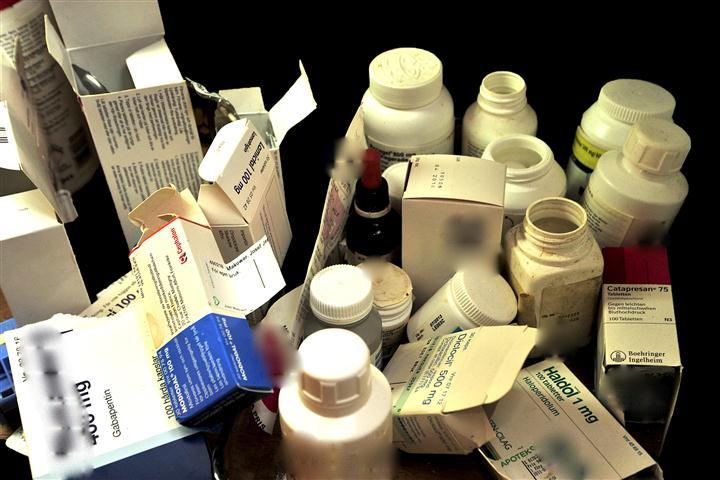 typical kitchen in an eldery multipleill person